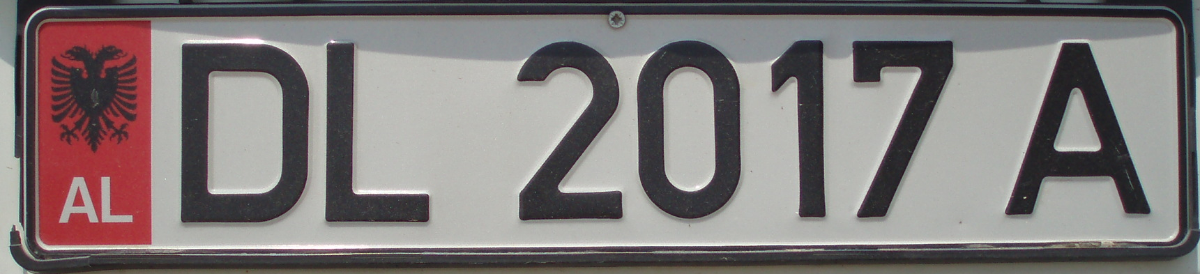 license plate of Delvine, Albania